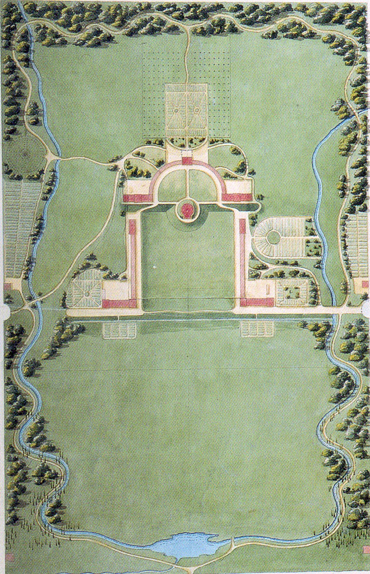 The Joseph Jacques Ramée (1764-1842) architectural plan of Union College in Schenectady, New York, United States